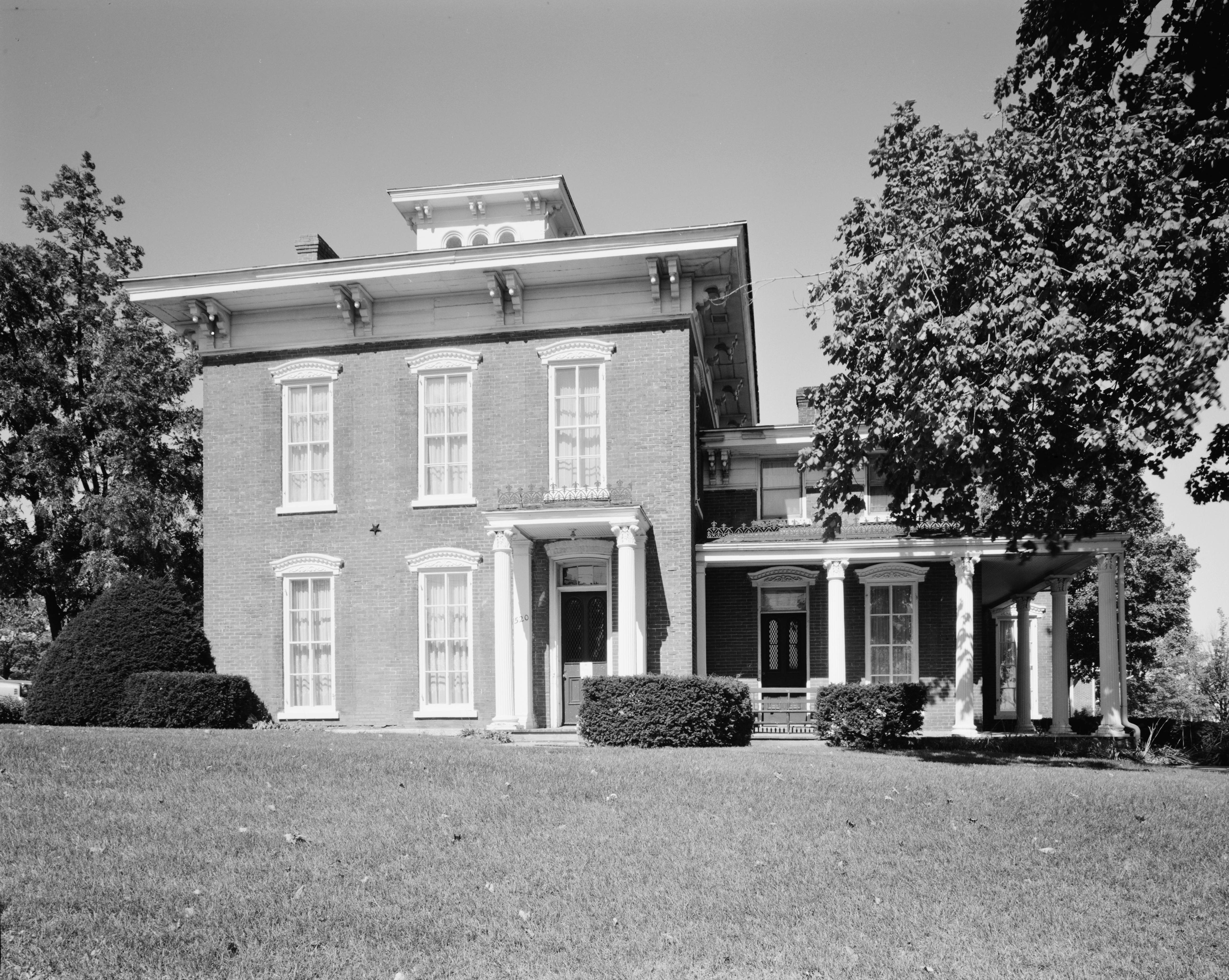 Front of the Rensselaer Russell House, located at 520 W. 3rd Street in Waterloo, Iowa, United States. Built in 1858, it is listed on the National Register of Historic Places.